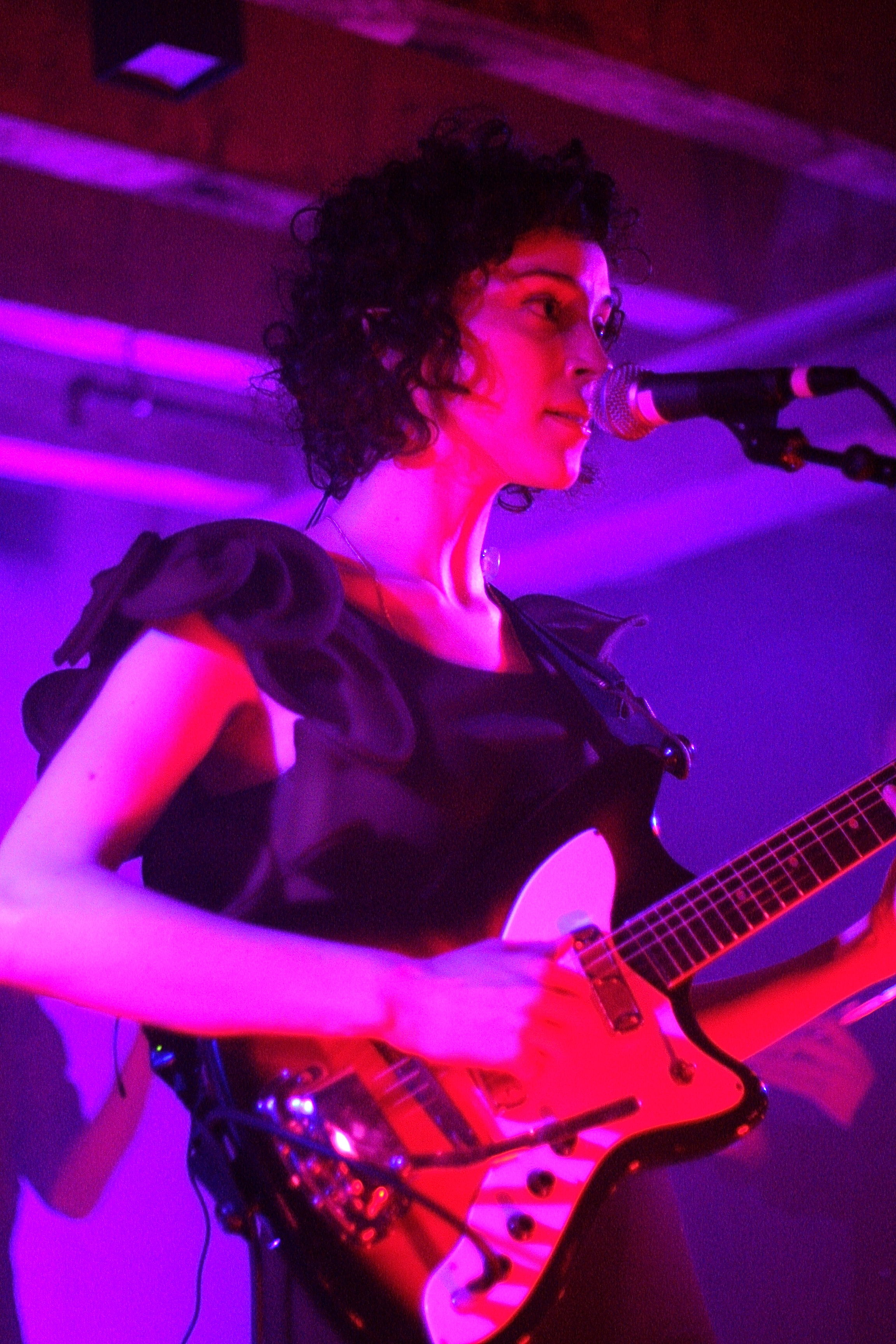 Photo of Annie Clark performing in Portland, Oregon on February 6, 2010 at the Douglas Fir Lounge. Photo uploaded by parttimemusic on Flickr